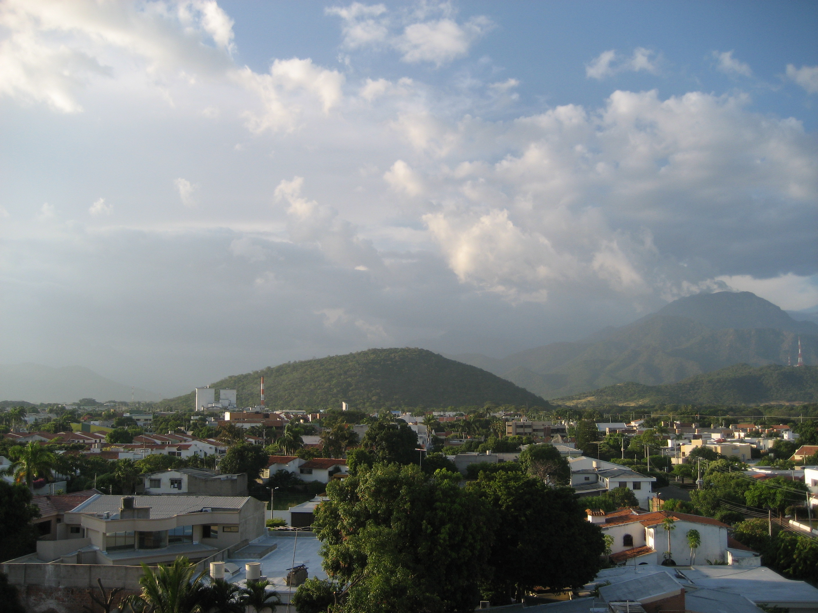 Raining in the City of Valledupar, Colombia.